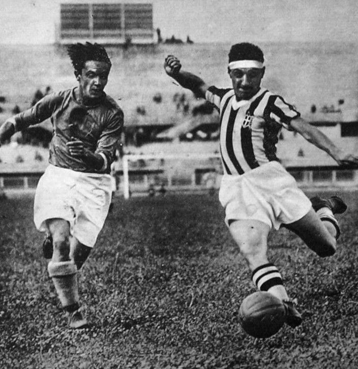 Turin (Italy), Mussolini Stadium, July 8, 1934. F.B.C. Juventus' left-back Umberto Caligaris (right) engaging with an opponent striker during the home tie versus Újpest F.C. (1-1), 2nd leg of the 1934 Central European Cup quarter-finals.